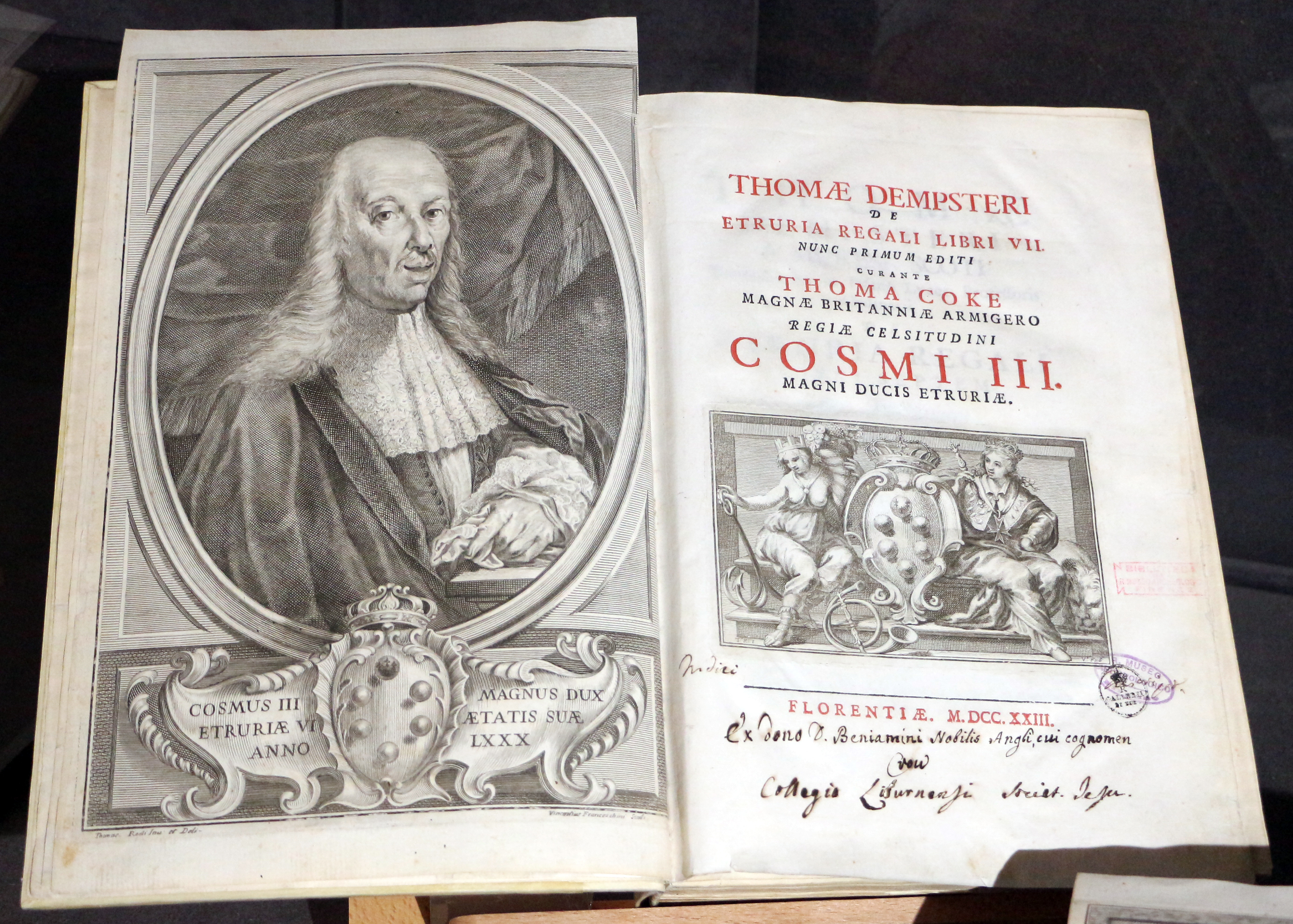 Winckelmann, Firenze e gli Etruschi (2016 exhibition)